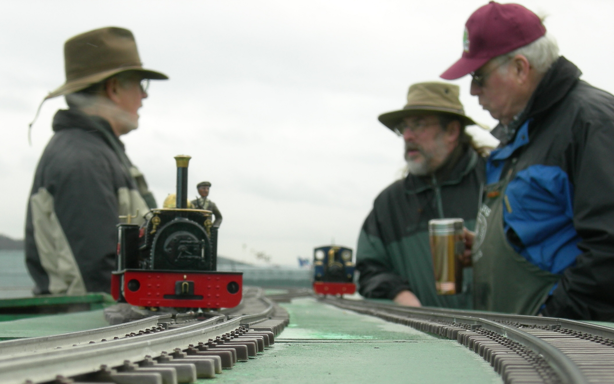 Model steam train enthusiasts. Photographed outside Georgetown PowerPlant Museum, Seattle, Washington, USA.